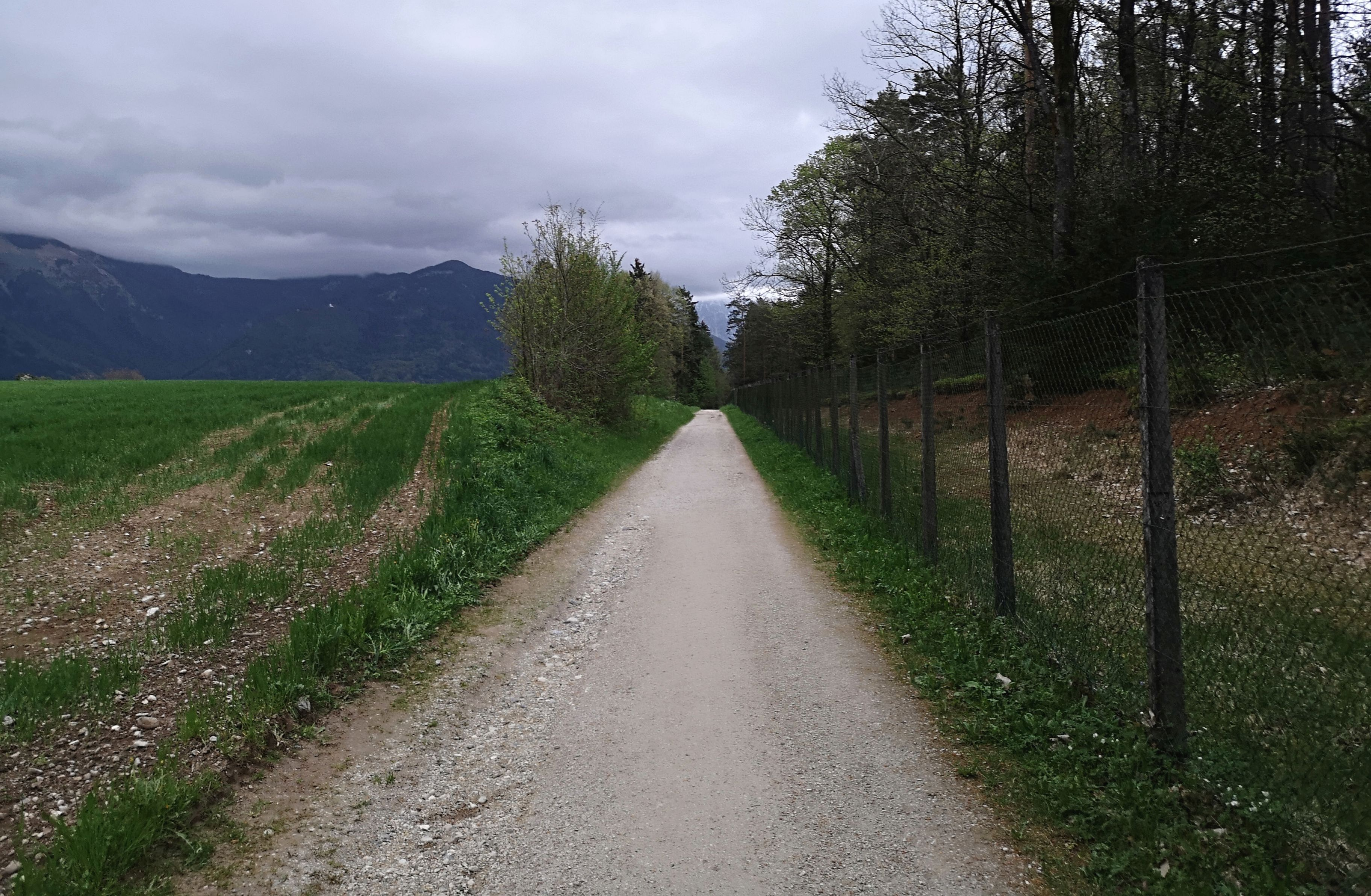 Trail around the Brdo estate (northwestern Slovenia). Western part.